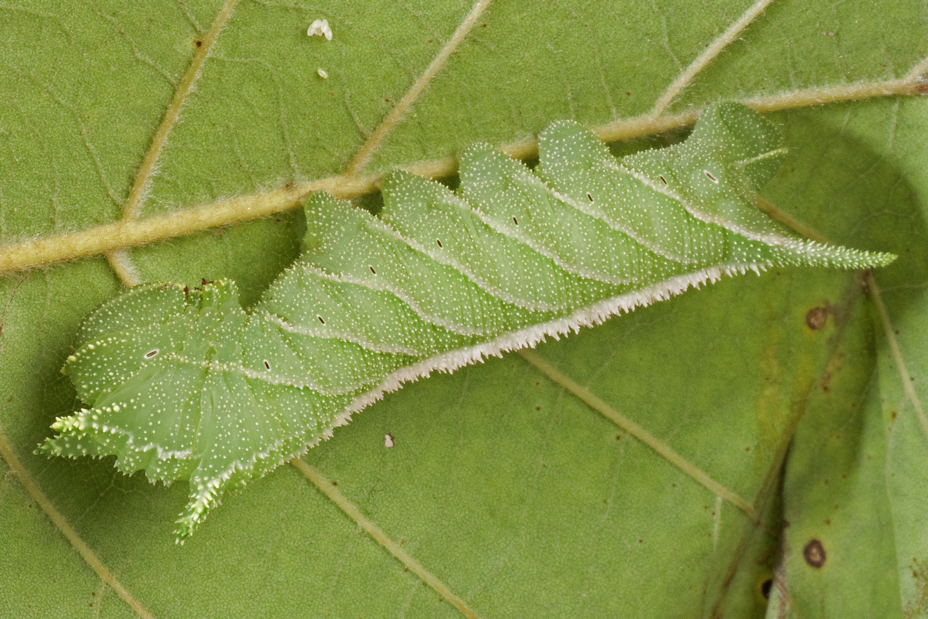 Four-horned Sphinx (Elm Sphinx) Ceratomia amyntor Forty Fort, PA 8/2/11